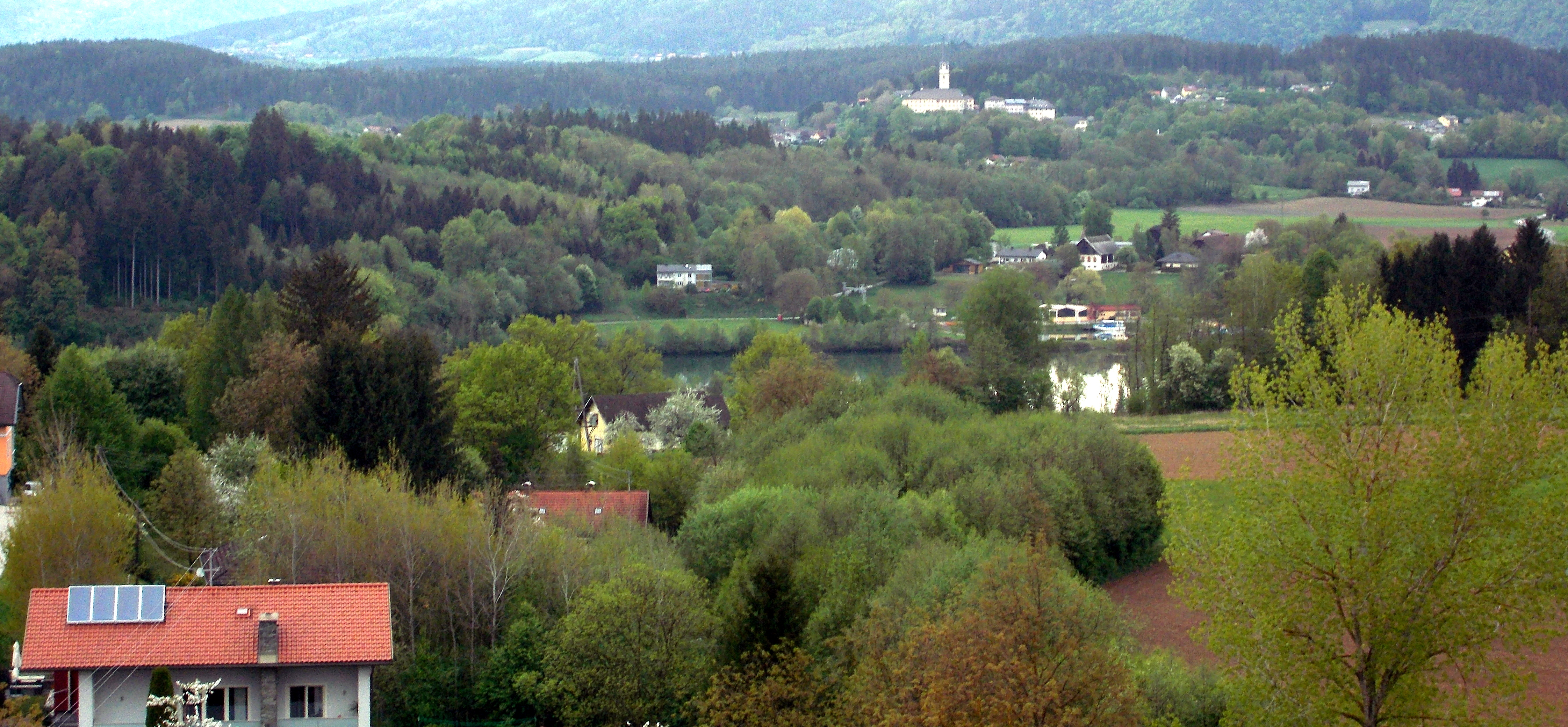 View from Kamen-Stein to Tinje-Tainach in Carinthia